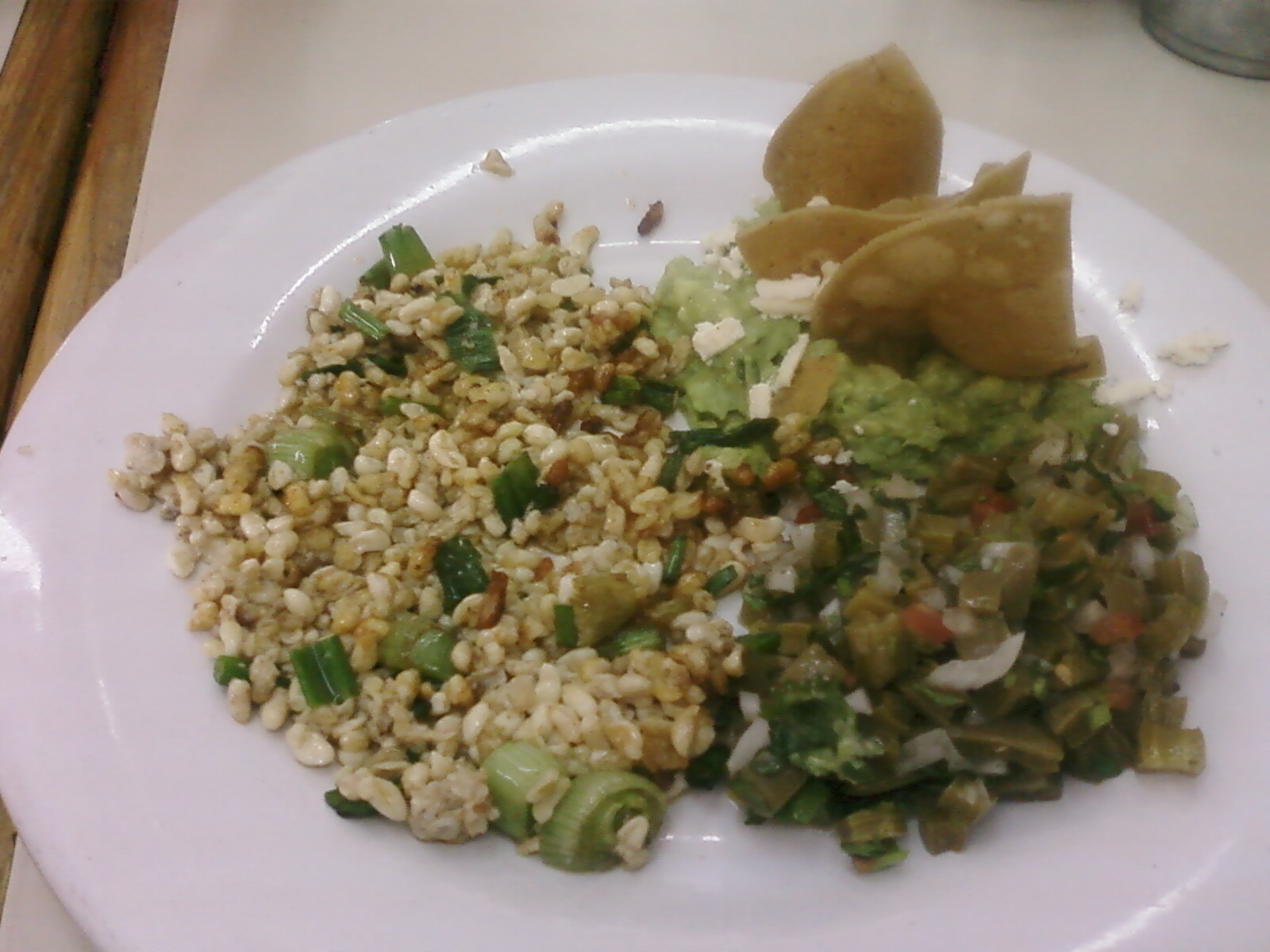 Escamoles on butter, Mexican dish, It has escamoles(left), nopales( right) , avocado (back), onion, tortilla